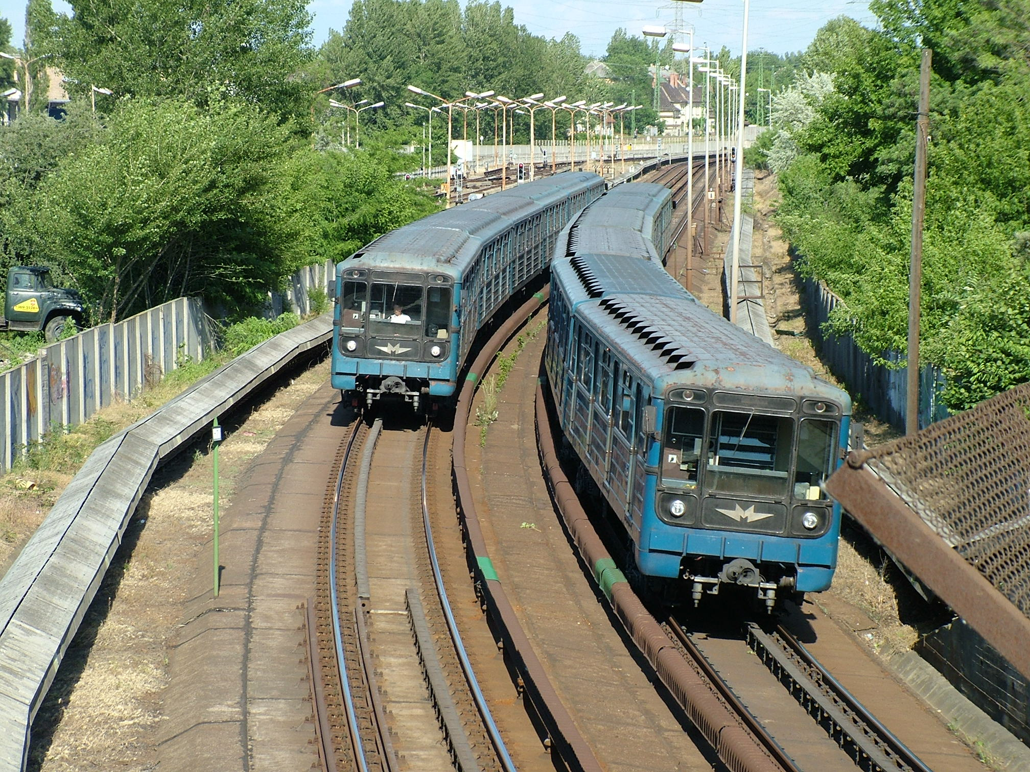 Határ út, Budapest metro